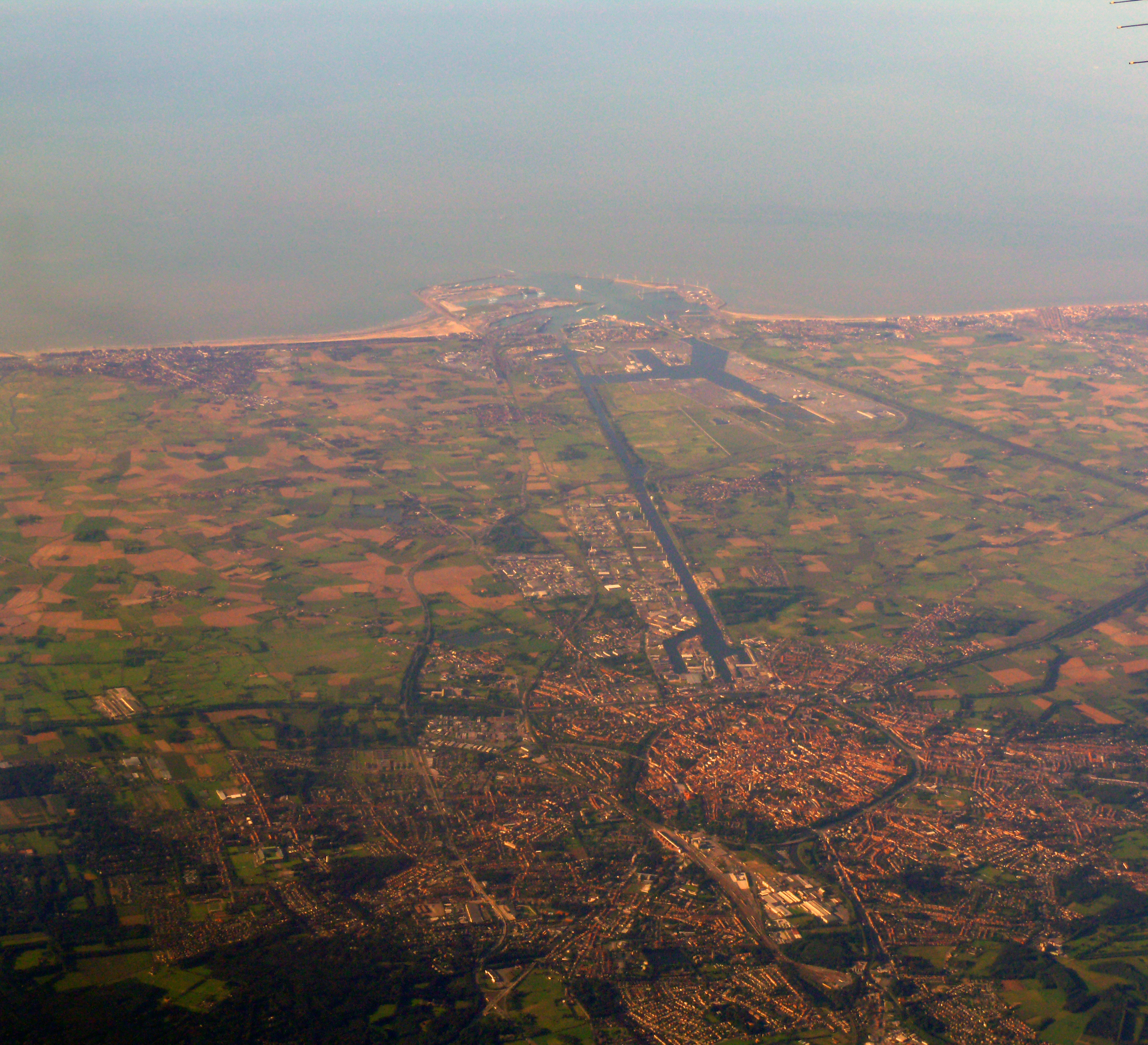 Aerial photo of Bruges (Flanders, Belgium).